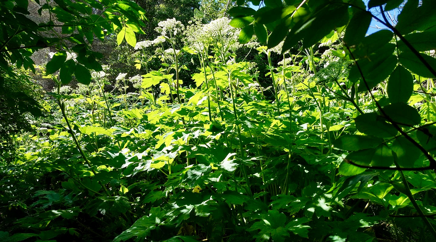 Large cow parsnip plants in a forest, Mud Bay trail, Homer, Alaska (estimated height 9 feet (2.7 m))File:Big pushki in winter.jpg shows the same location in late winter